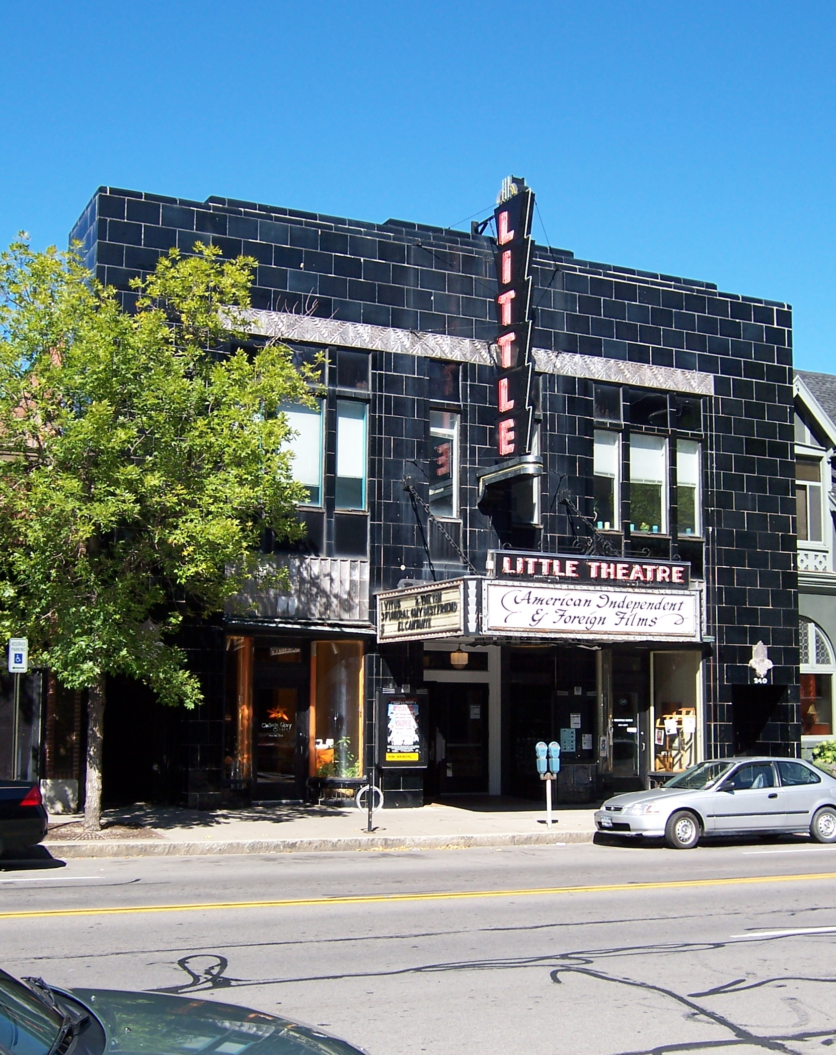 The Little Theatre, an historic art house movie theatre popular in Rochester, New York. The street in the foreground is East Avenue, New York State Route 96.